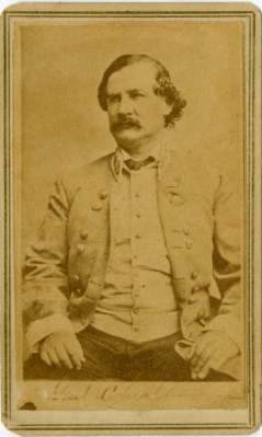 Confederate General Benjamin F. Cheatham (1820–1860)